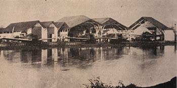 Hangars of Sociedad Colombo Alemana de Transportes Aéreos (SCADTA) in Barranquilla, Colombia